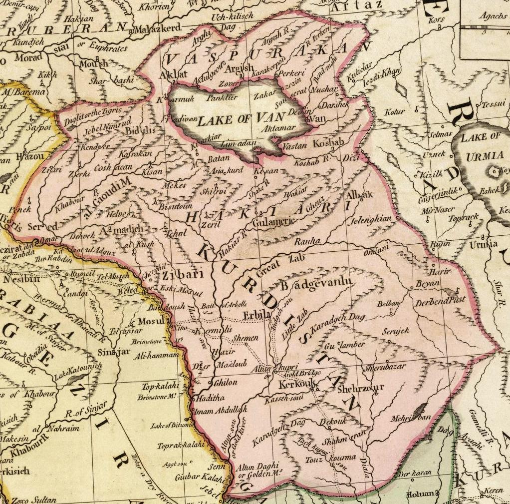 A new map of Turkey in Asia by Monsr. d'Anville, first geographer to the most Christian King with several additions. London, published by Laurie & Whittle, no. 53 Fleet Street as the Act directs, 12th May, 1794.